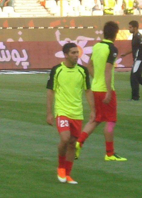 Amir Hossein Feshanghchi, Persepolis-Malavan match, 2012-13 Iran Pro League